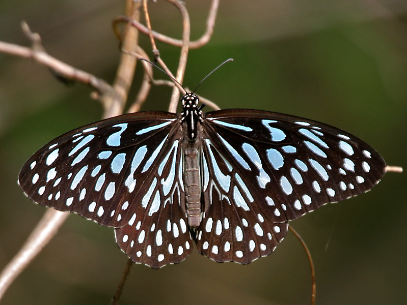 Dark Blue Tiger Tirumala septentrionis on Rattleweed Crotalaria retusa at Talakona forest, in Chittoor District of Andhra Pradesh, India.